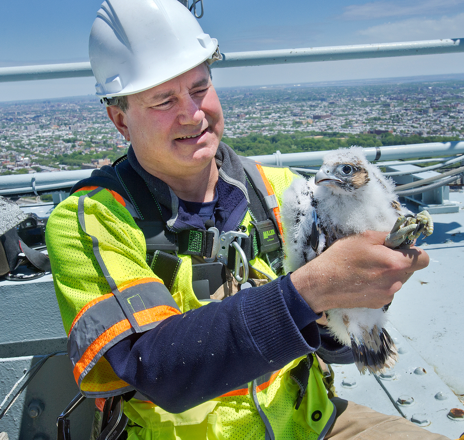 NYC DEP Research scientist Chris Nadareski with falcon. Two baby boys and one baby girl peregrine falcons are banded atop the Brooklyn tower at the Verrazano-Narrows Bridge. Photo: Metropolitan Transportation Authority / Patrick Cashin